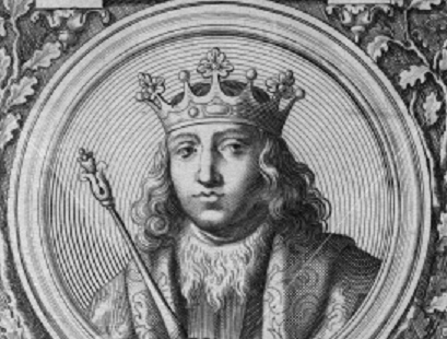 Picture of Ferdinand IV of Castile, King of Castile and Lion (Spain).